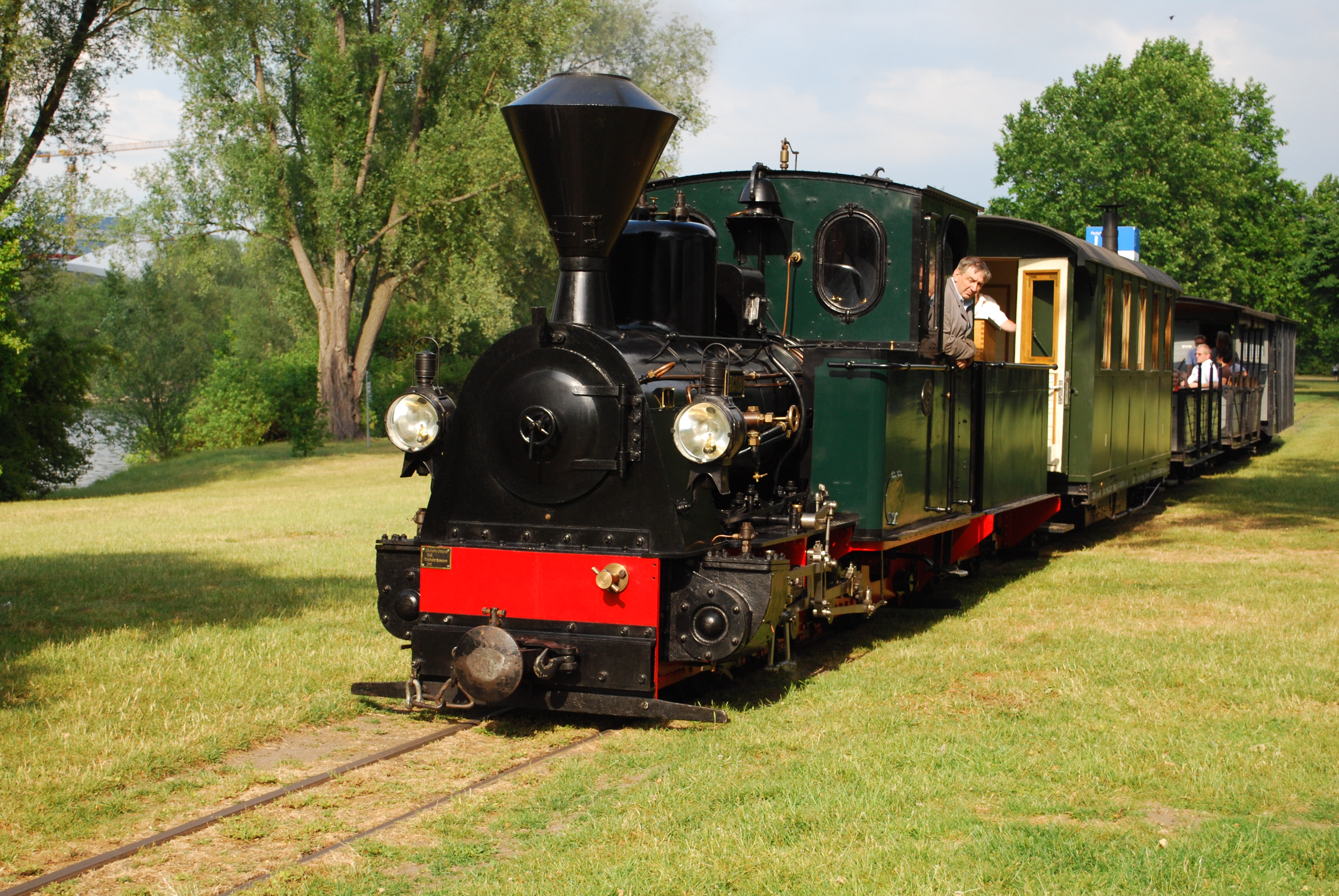 MPSB (Mecklenberg & Pomerania Narrow Gauge Railway) 600 mm 0-6-2 No. Lok 14 "Jacobi", Jung No.989 of 1906, at the Franfurter Feldbahn, 6/11.